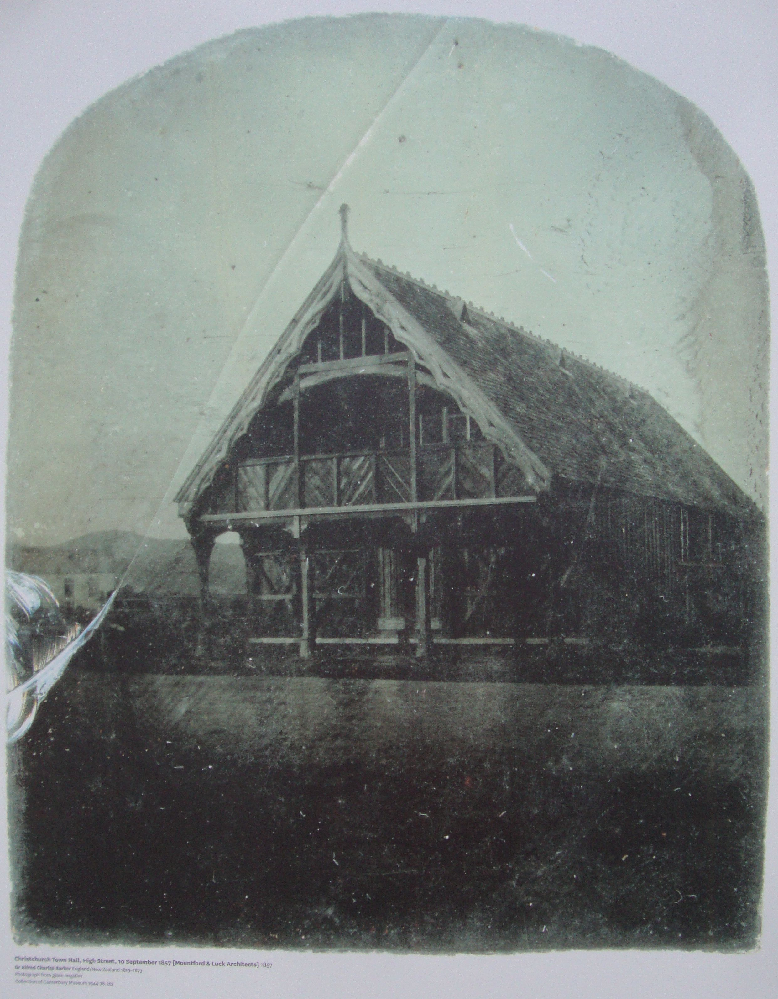 The original Christchurch Town Hall in High Street (north of Lichfield St), designed by Mountfort and Luck.